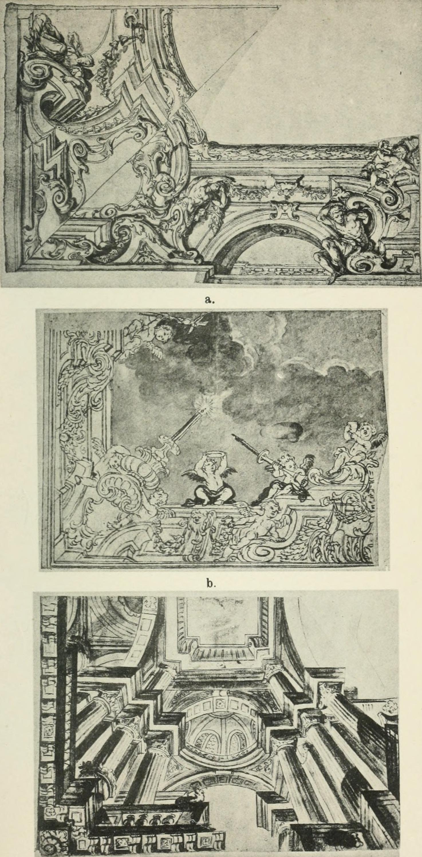 Title: Die Entwicklung der barocken Decken-malerei in Tirol. Mit 44 Tafeln und 6 Doppeltafeln Year: 1912 (1910s) Authors: Hammer, Heinrich, 1873-1953 Subjects: Ceilings Painting Decoration and ornament, Baroque Publisher: Strassburg : J.H.E. Heitz Text Appearing Before Image: Decke der rechten Chorkapelle in der Stiftskirche zu Stams.(Egid Schor um 1696. S. 136.) II Text Appearing After Image: Entwürfe zu Deckendekorationen von Egid Schor. (S. 142.) 12